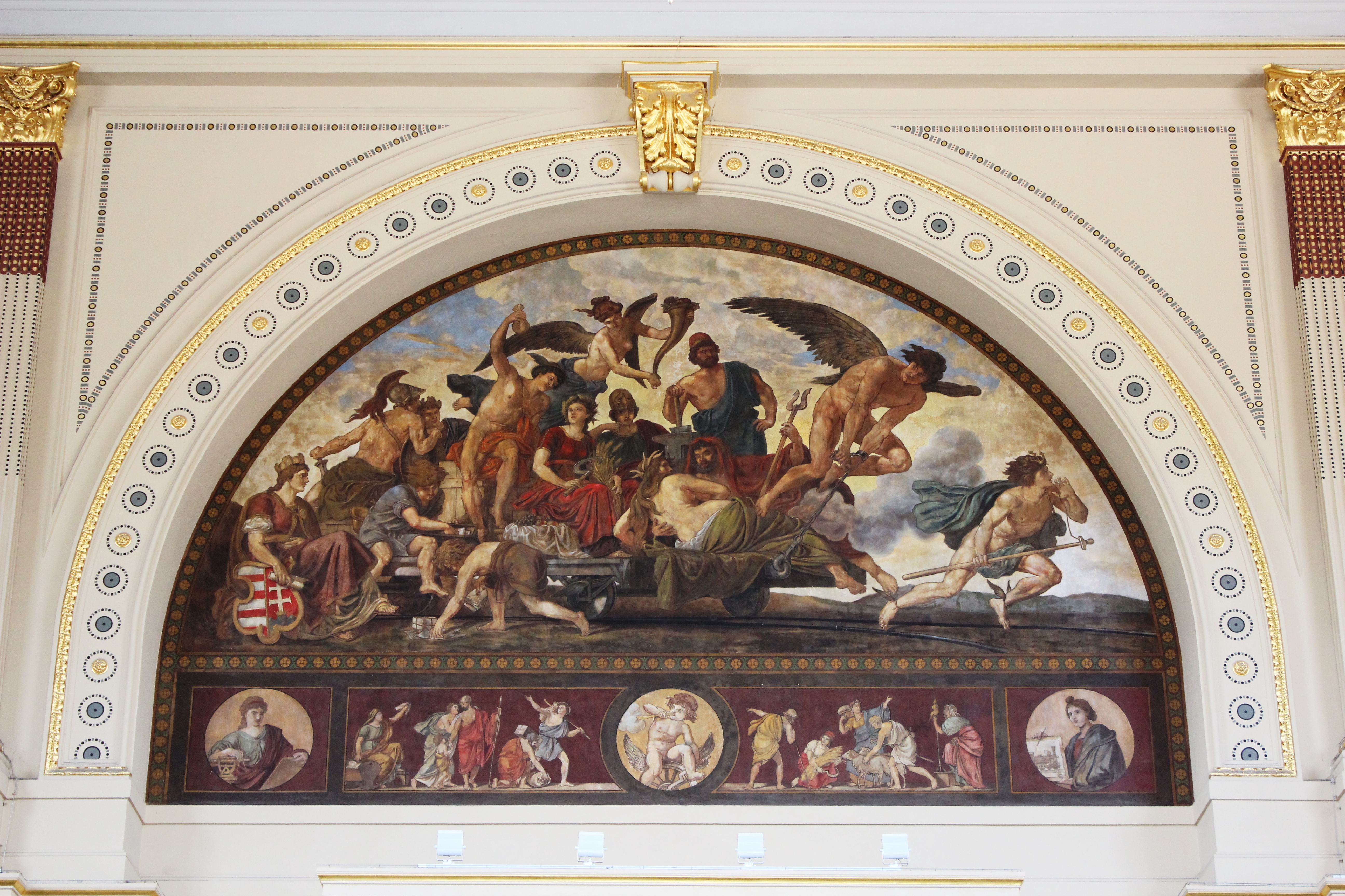 Railway and traffic (1884) - Secco by Mór Than in departure hall of the Keleti Railway Station (Budapest, Hungary).